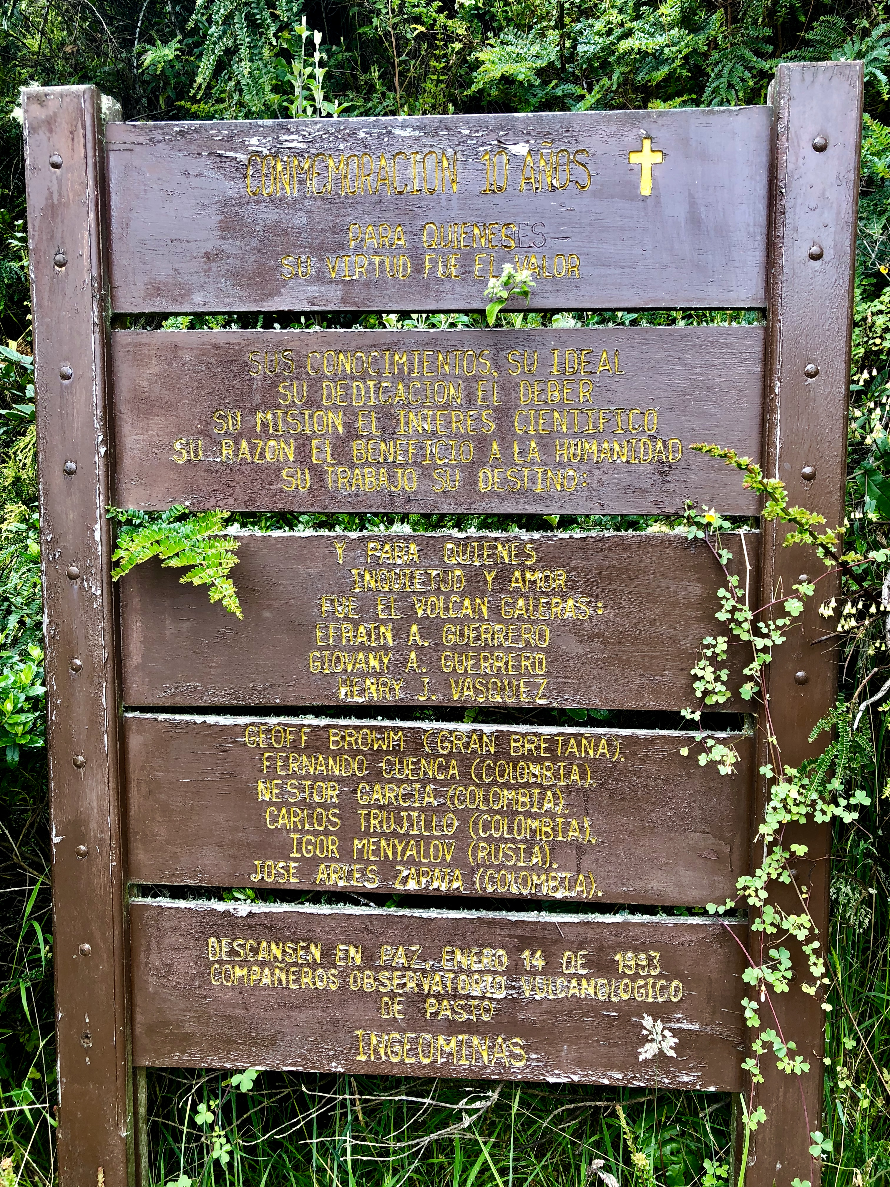 Galeras Volcano - Pasto, Nariño, Colombia